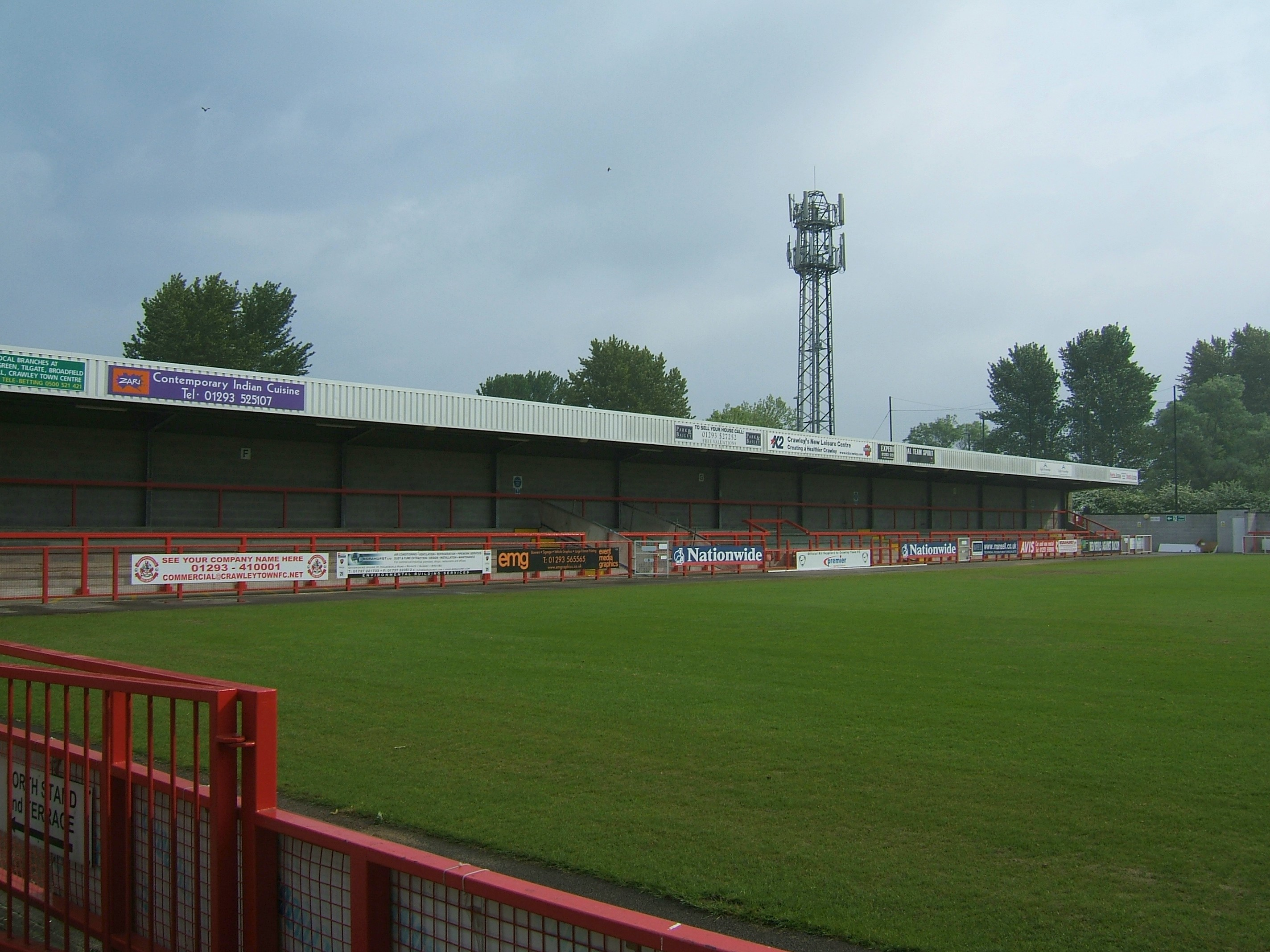 North stand